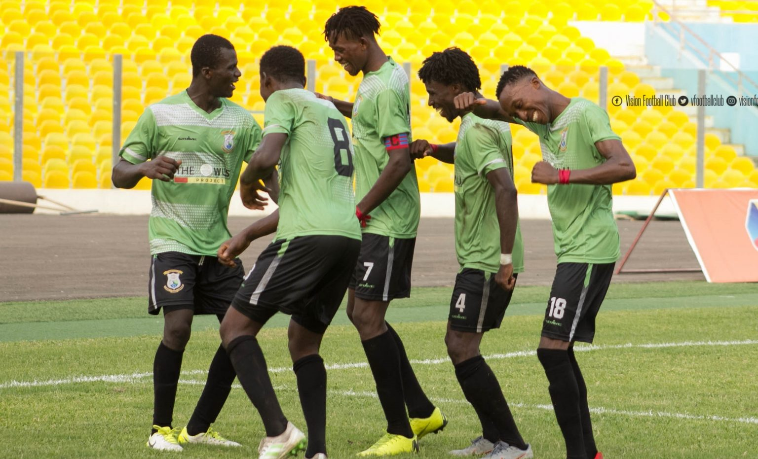 Vision FC celebrating a goal against Accra Lions in the MTN FA Cup